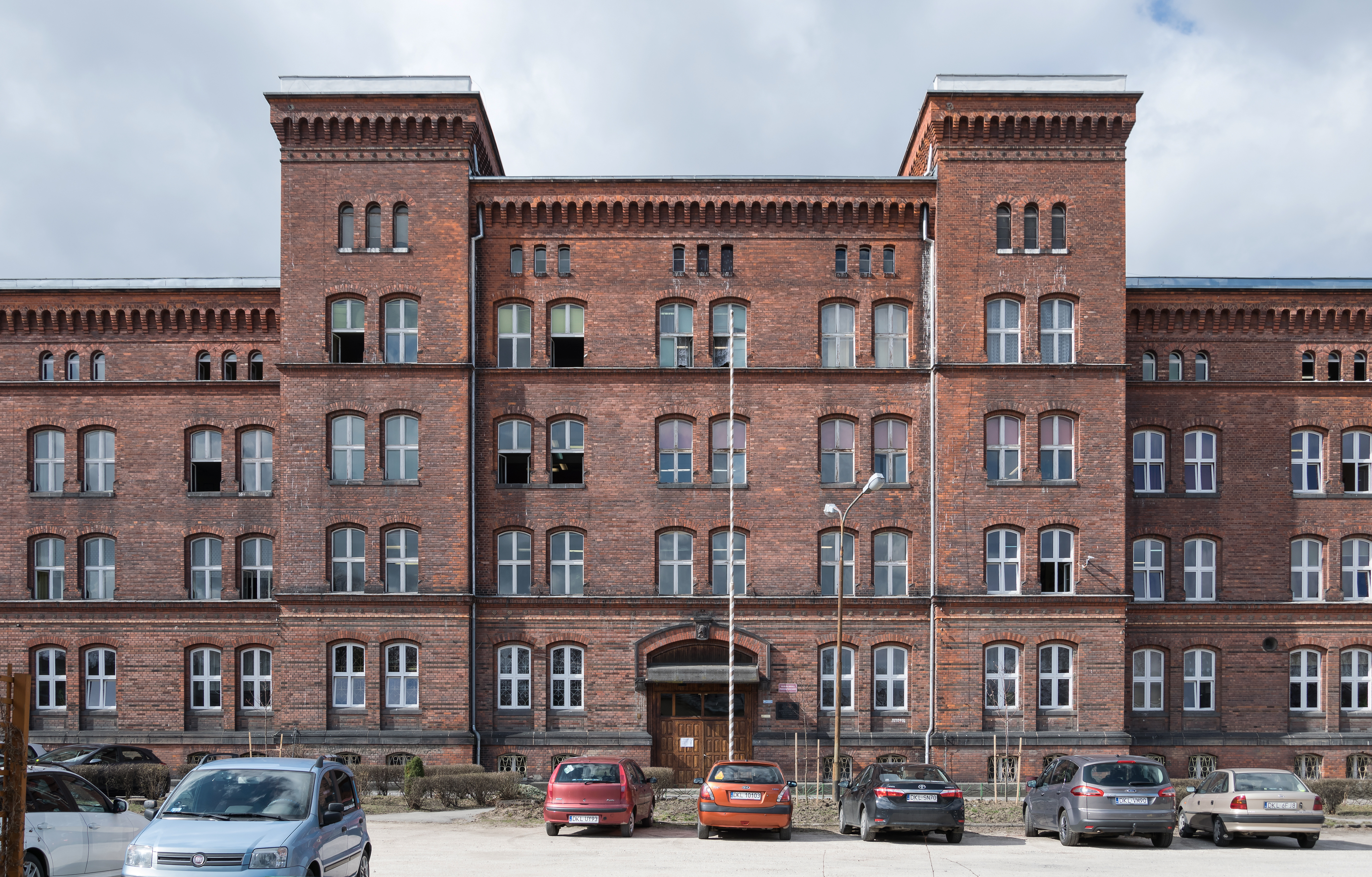 Kłodzka Szkoła Przedsiębiorczości in Kłodzko